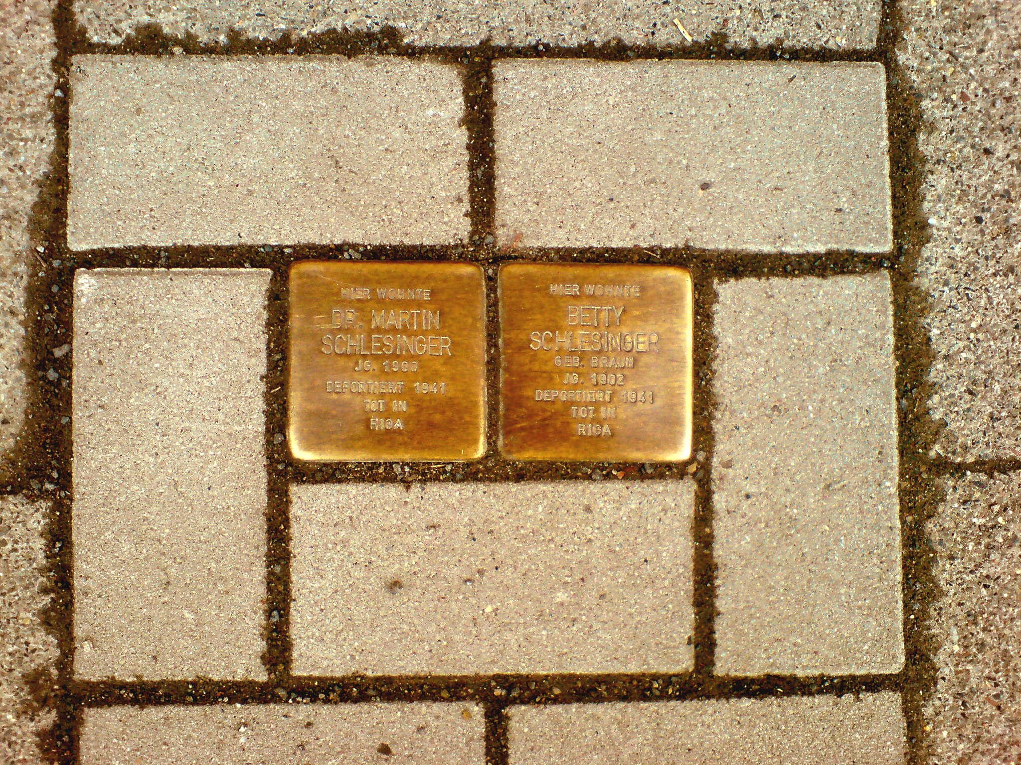 Stolpersteine to commemorate the Jews Dr. jur. Martin Schlesinger (* Juny 28, 1900 in Kattowitz; declared as † to December 31, 1945 in Riga) and his wife Betty Schlesinger, born Braun (* August 3, 1902 in Ostrowo; declared as † to December 31, 1945 in Riga) in Hanover in front of the Villa Simon at the Königsworther Platz (Konigsworther Square) in the Brühlstrasse 27 (formerly No. 7). After the so called "Reichskristallnacht" the couple Schlesinger retrieved their two children, at that time the nine years old Michal and his 6 years old sister, from a worser destiny: Without (the forbidden) good-bye at the station the parents sent their children by one of the last Kindertransporte on August 22, 1939 to Liverpool. But the parents had been declared 1941 as stateless according to "§ 2 der 11. Verordnung zum Reichsbürgergesetz vom 25.11.1941 Reichsgesetzblatt 1 Seite 722" and deported to the lettish Riga. The local Riga Ghetto had been "cleared" after the assassination of thousands of lettish Jews for "work input" of Jews from Germany. Since the end of 1943 the ghetto had been liquidated, the survivers brought step by step to the Kaiserwald concentration camp. How and when the couple Schlesinger died could never be clarified: After the request of their children who in England adopted the birth name of her mother "Braun" and anglicized it into "Brown" the Amtsgericht Hannover declared their parents as dead on March 29, 1952 backdated to December 31, 1945 24 o'clock. Not before 2009 the already 79 years old son Michael could commemorate his parents in presence with Dr. Peter Schulze and Gabriele and Frank Lehmberg of the Deutsch-Israelische Gesellschaft - instead of the not existent graves now there where Gunter Demnig placed the Stolpersteine in front of the last common home of the former family Schlesinger.